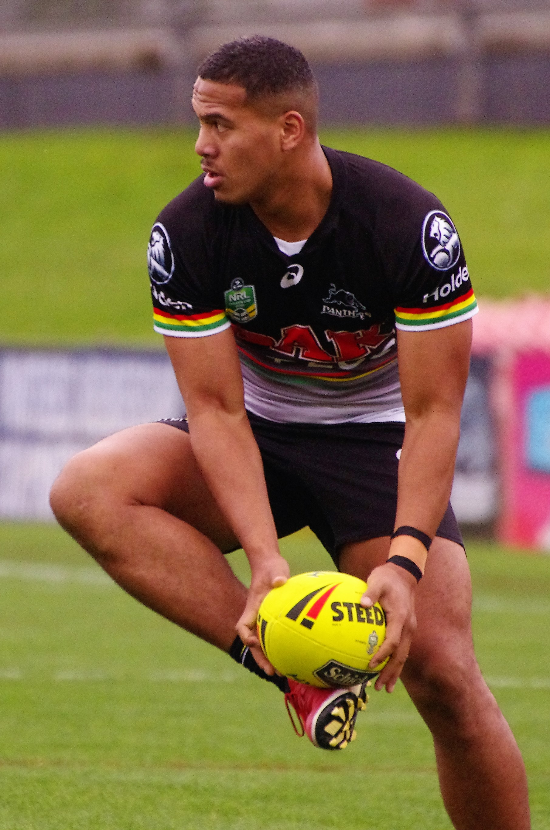 Australian rugby league player Mose Feilo performing a 'tap kick' during Penrith Panthers NRL Under-20s game.